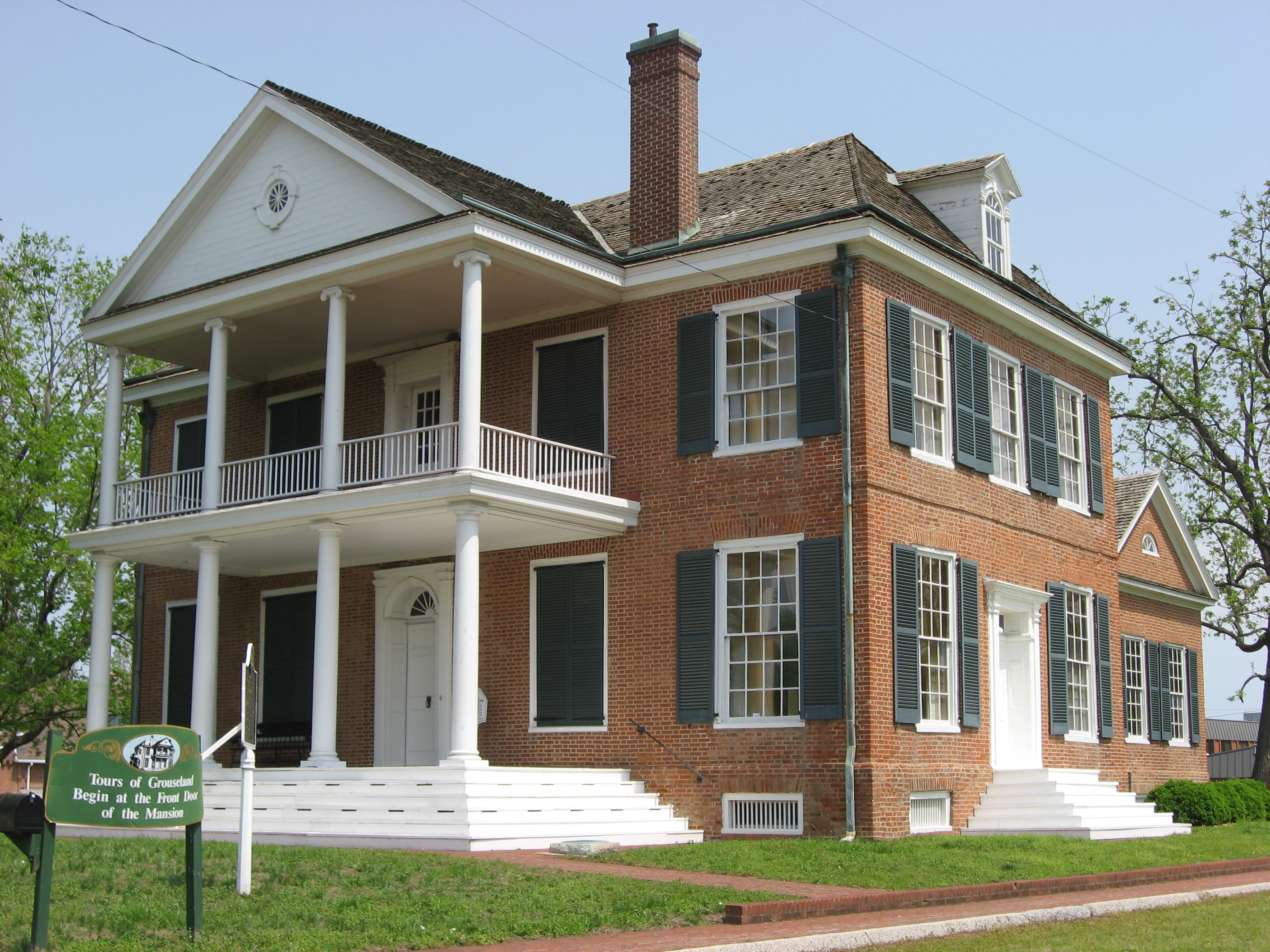 Front and southern side of Grouseland, the William Henry Harrison House, located at the end of Scott Street in Vincennes, Indiana, United States. Built in 1804, it has been designated a National Historic Landmark, and it is part of the the Vincennes Historic District, a historic district that is listed on the National Register of Historic Places.